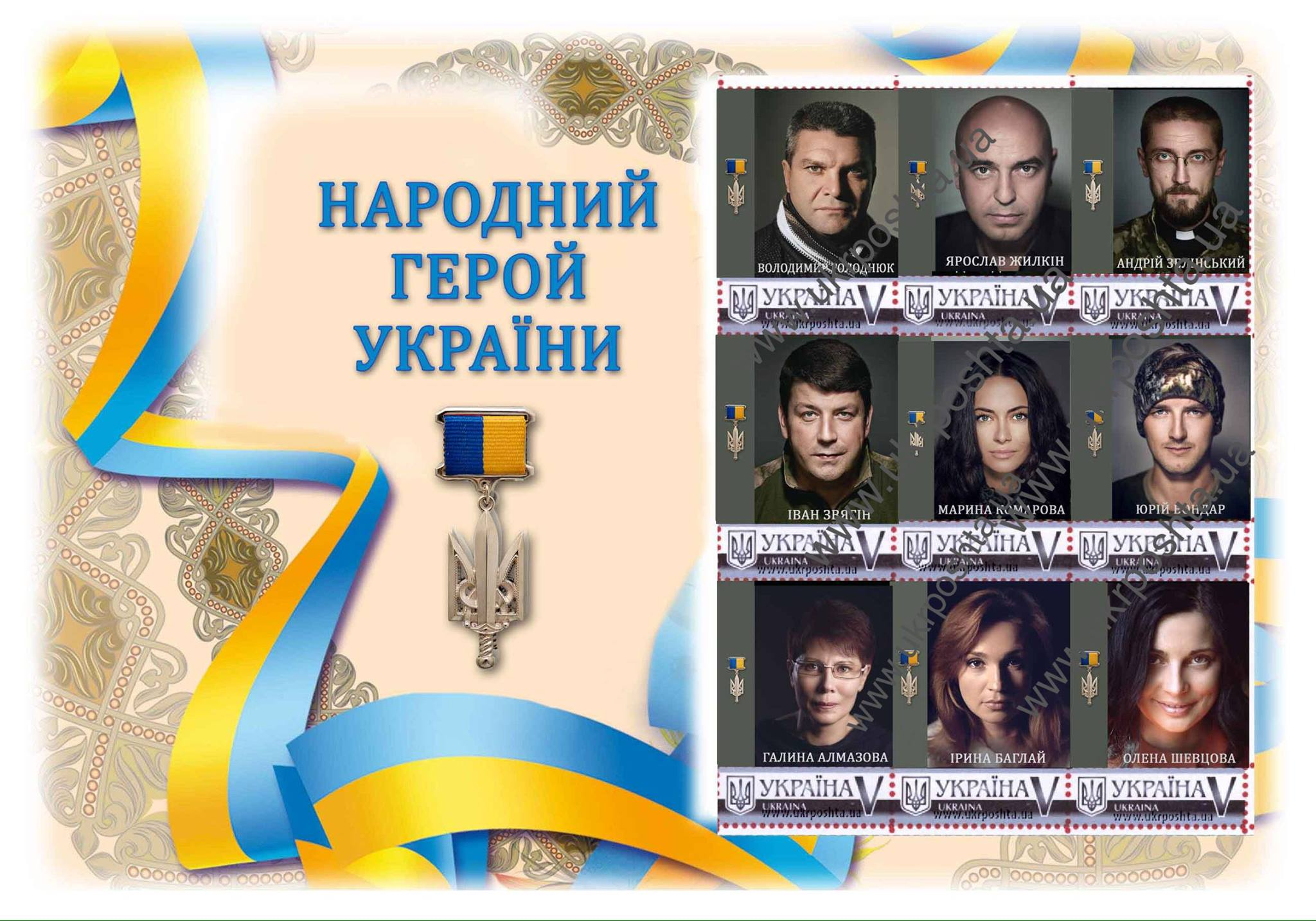 May 7, 2016 Ukrpochta ceremony held special cancellation postmark special envelopes with the postage stamp, which is a portrait of Knight of «Narodnyy Heroy Ukrayiny» photographer Roman Nikolaev.